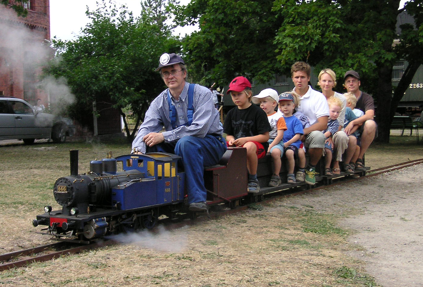 A propane fired 1:8 scale live steam train running on the Finnish Railway Museum's miniature track. Photo by User:Janke 2006